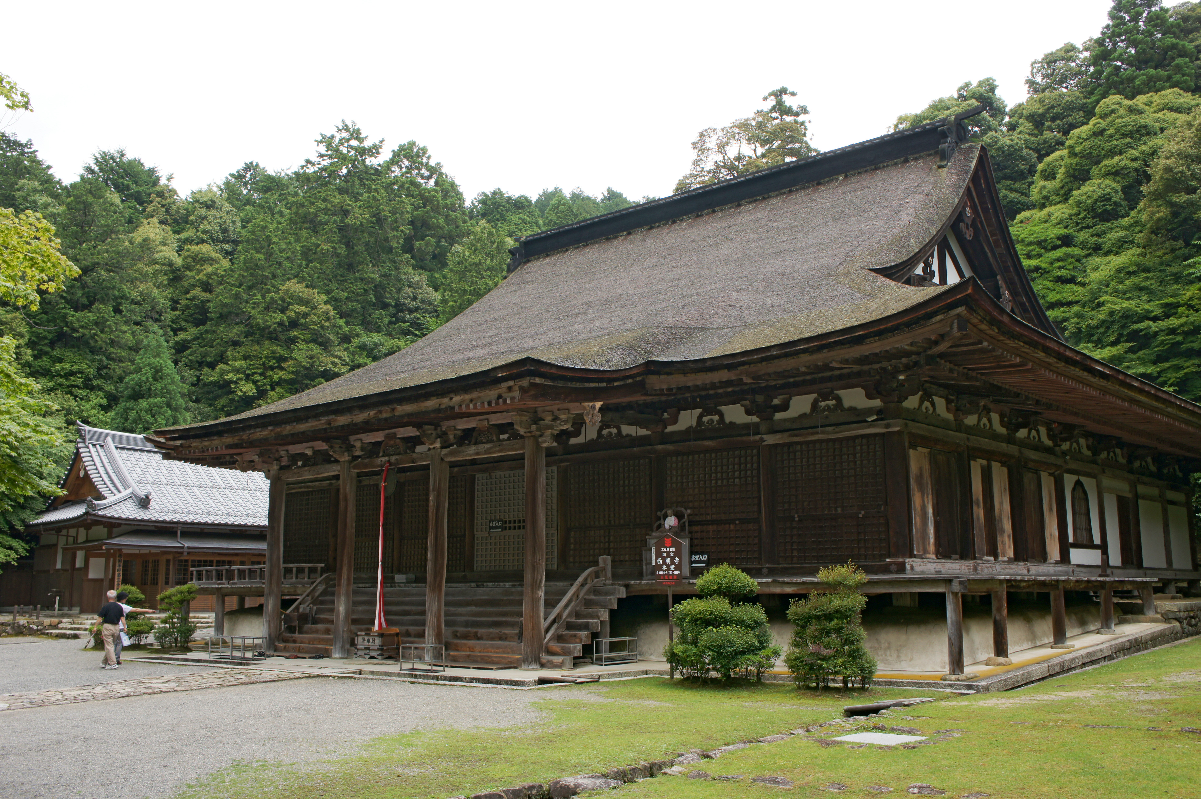 Saimyō-ji's Main Hall is a Japan's National Treasure in Kora, Shiga prefecture, Japan.